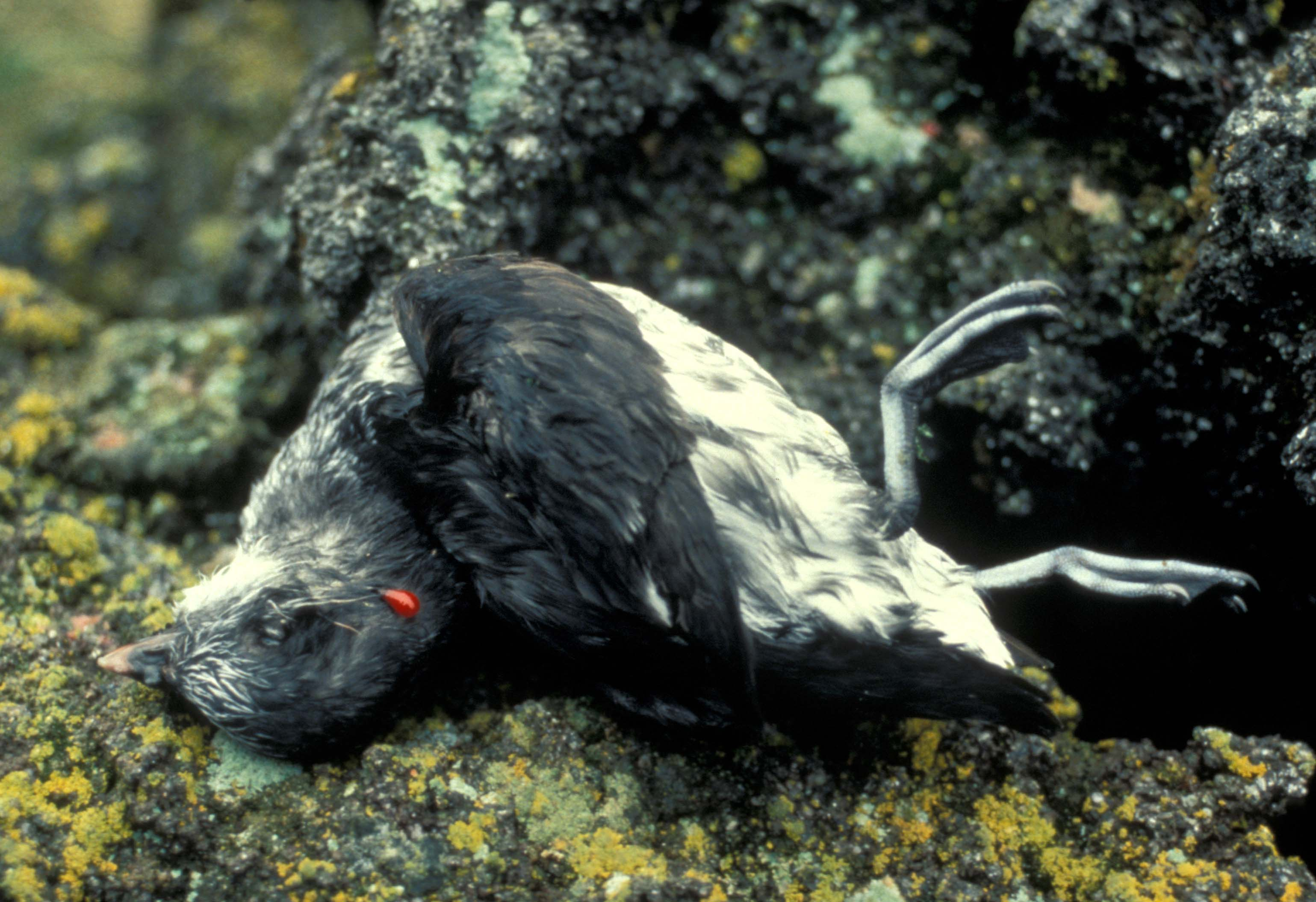 Least Auklet killed by a rat